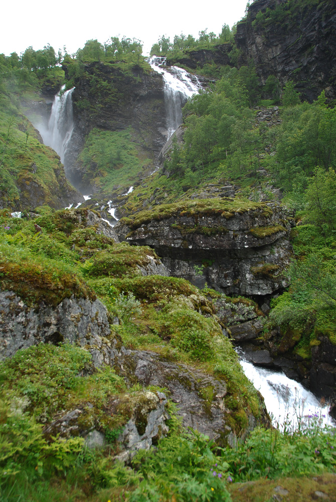 Myrdalsfossen